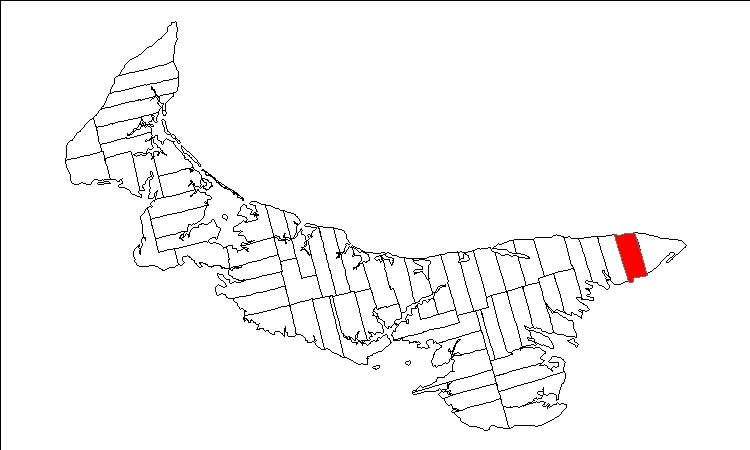 Public domain map of Prince Edward Island created by User:Plasma east with data courtesy of Geogratis, modified to show townships. Released under GFDL (self).